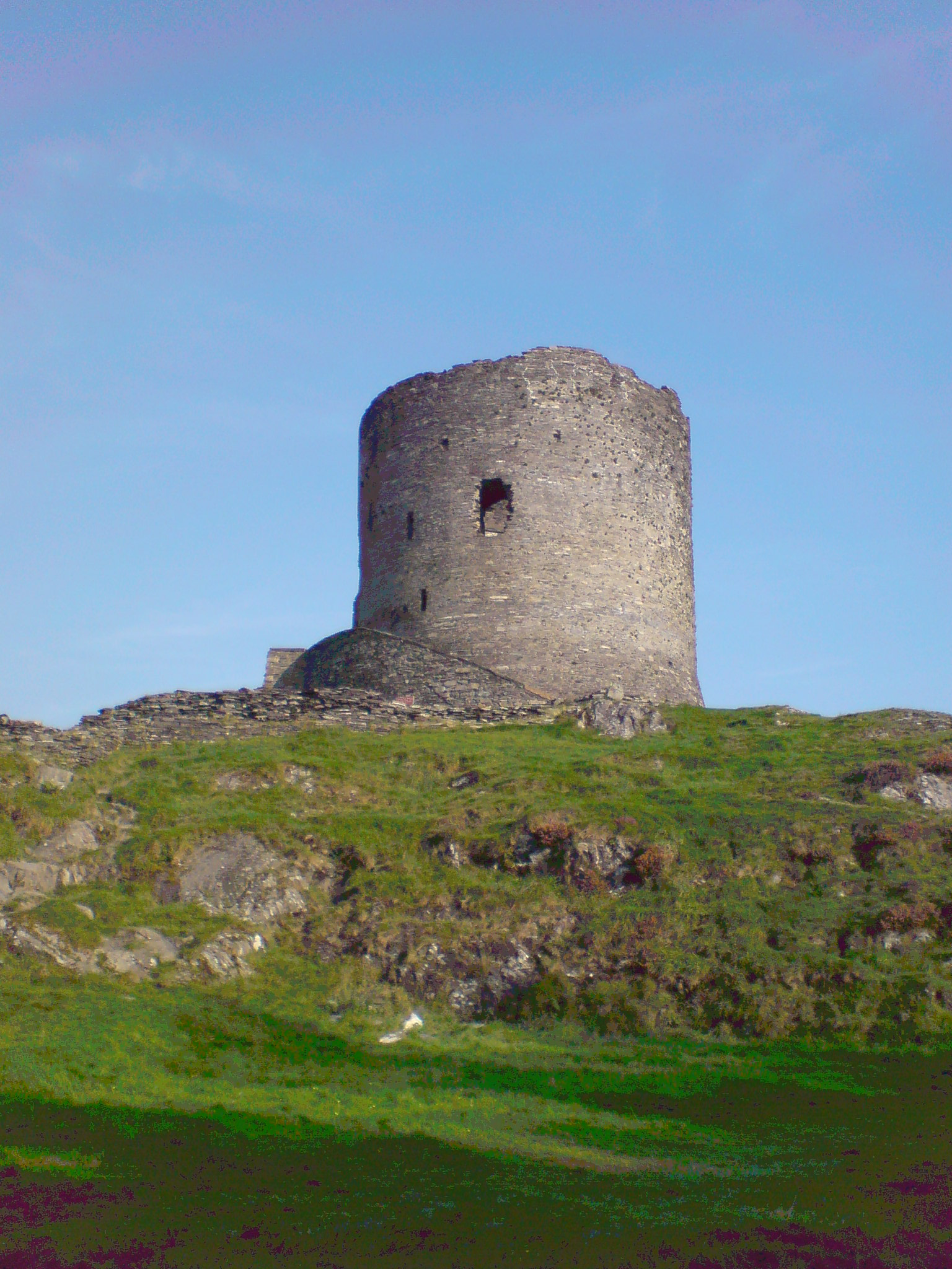 Dolbadarn Castle in North Wales, UK